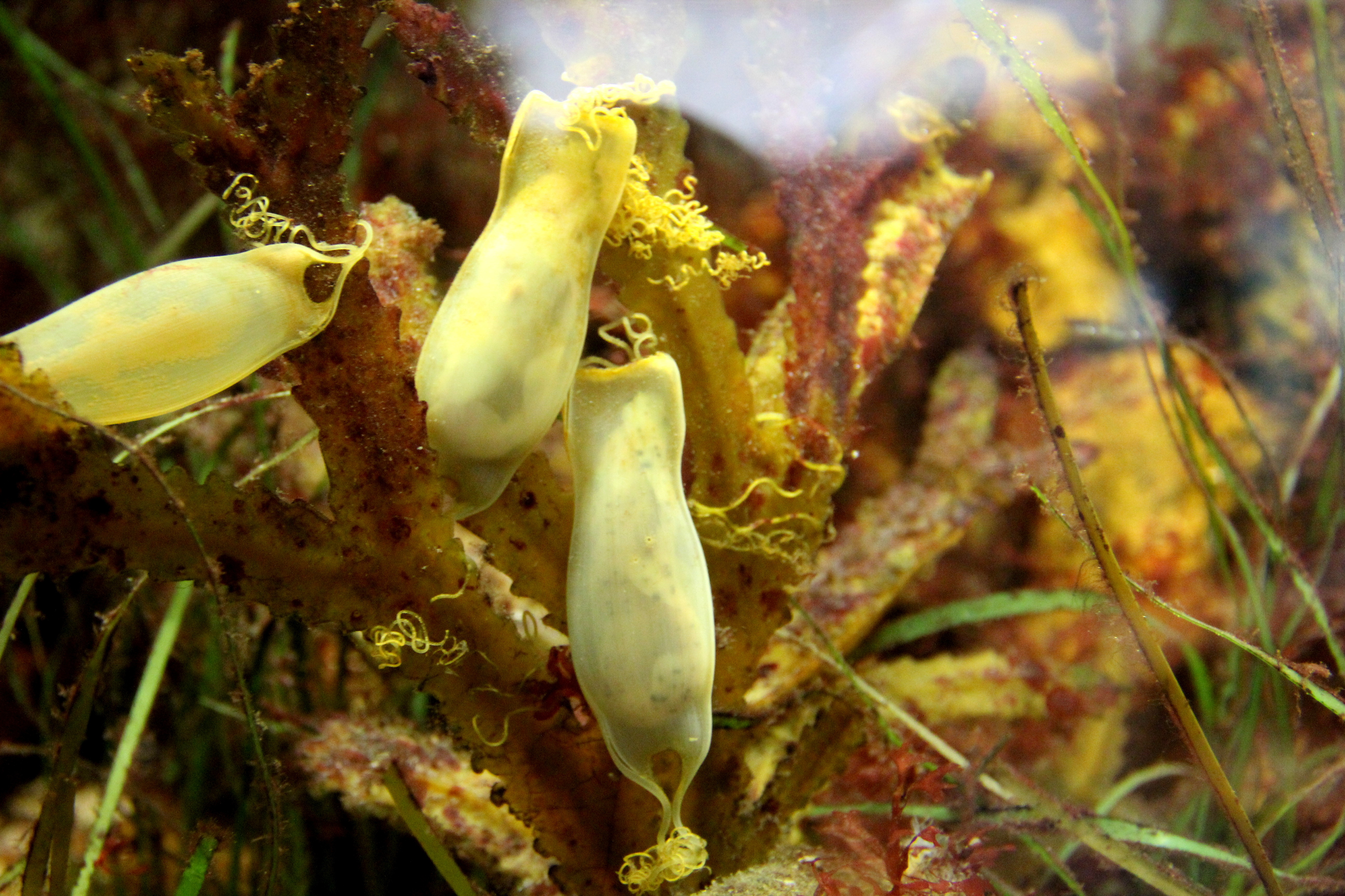 Catsharks Egg case "mermaid's purse"